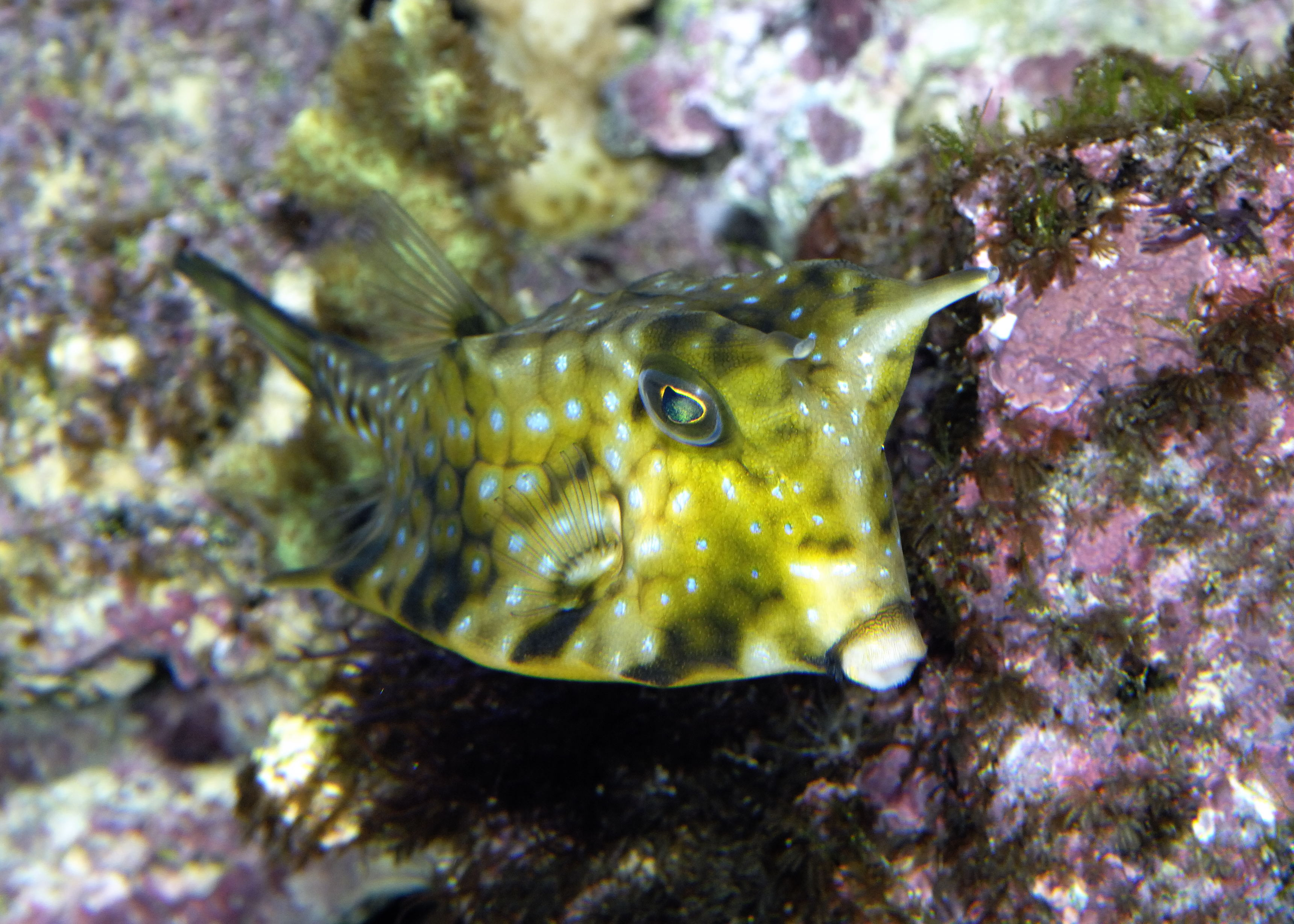 Austria, Vienna, Tiergarten Schönbrunn